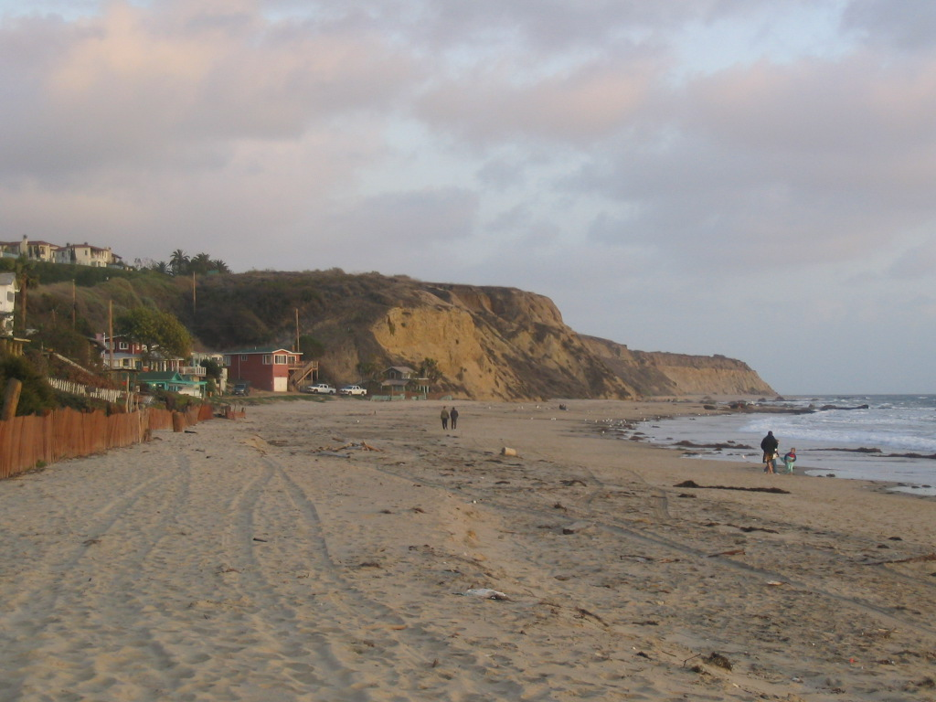 Crystal Cove